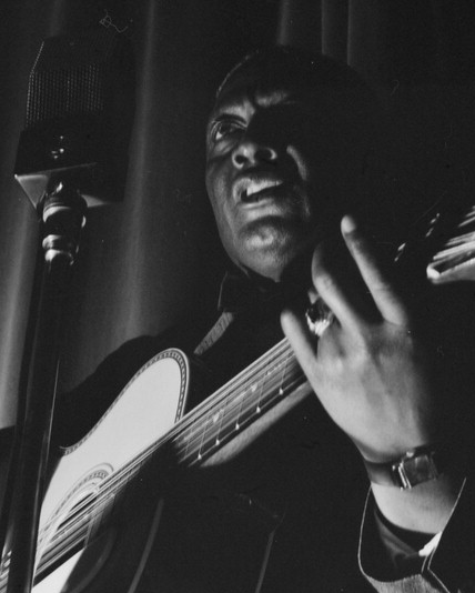 Gottlieb, William P., 1917-, photographer. [Portrait of Leadbelly, National Press Club, Washington, D.C., between 1938 and 1948] 1 negative : b&w ; 3 1/4 x 4 1/4 in. Notes: Gottlieb Collection Assignment No. 201 Reference print available in Music Division, Library of Congress. Purchase William P. Gottlieb Forms part of: William P. Gottlieb Collection (Library of Congress). Subjects: Leadbelly, 1885-1949 Guitarists--1930-1950. Singers--1930-1950. National Press Club Format: Portrait photographs--1930-1950. Film negatives--1930-1950. Rights Info: Mr. Gottlieb has dedicated these works to the public domain, but rights of privacy and publicity may apply. Repository: (negative) Library of Congress, Prints & Photographs Division, Washington D.C. 20540 USA, (reference print) Library of Congress, Music Division, Washington D.C. 20540 USA, Part Of: William P. Gottlieb Collection (DLC) 99-401005 General information about the Gottlieb Collection is available at Persistent URL: Call Number: LC-GLB23- 0557 This work is from the William P. Gottlieb collection at the Library of Congress. Rights and restrictions.In accordance with the wishes of William Gottlieb, the photographs in this collection entered into the public domain on February 16, 2010.